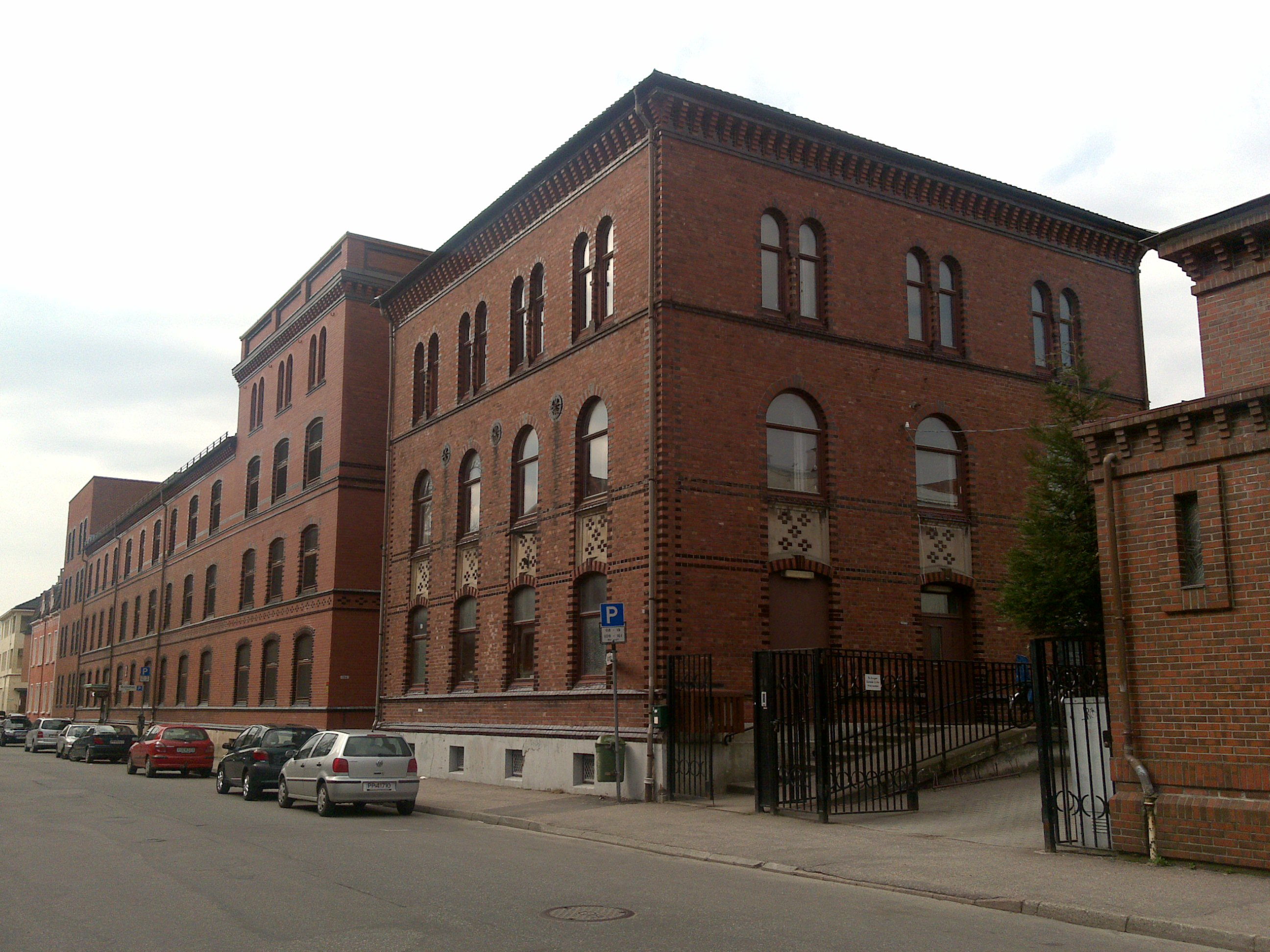 St Josef Hospital, Kristiansand (Norway). This was a catholic hospital, but is today converted to a aring station for the elderly.